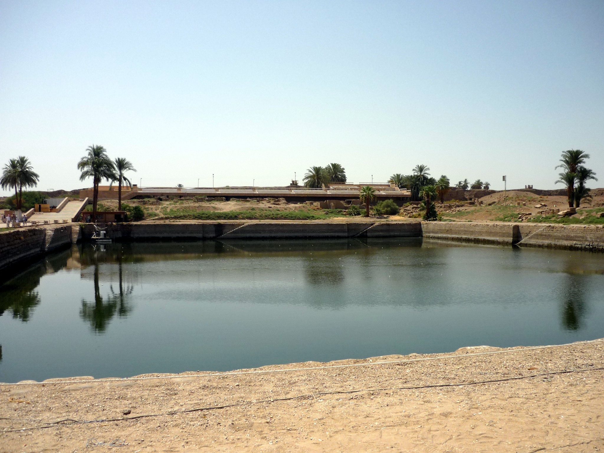 Sacred lake, Karnak temple of Amun-Ra, Egypt